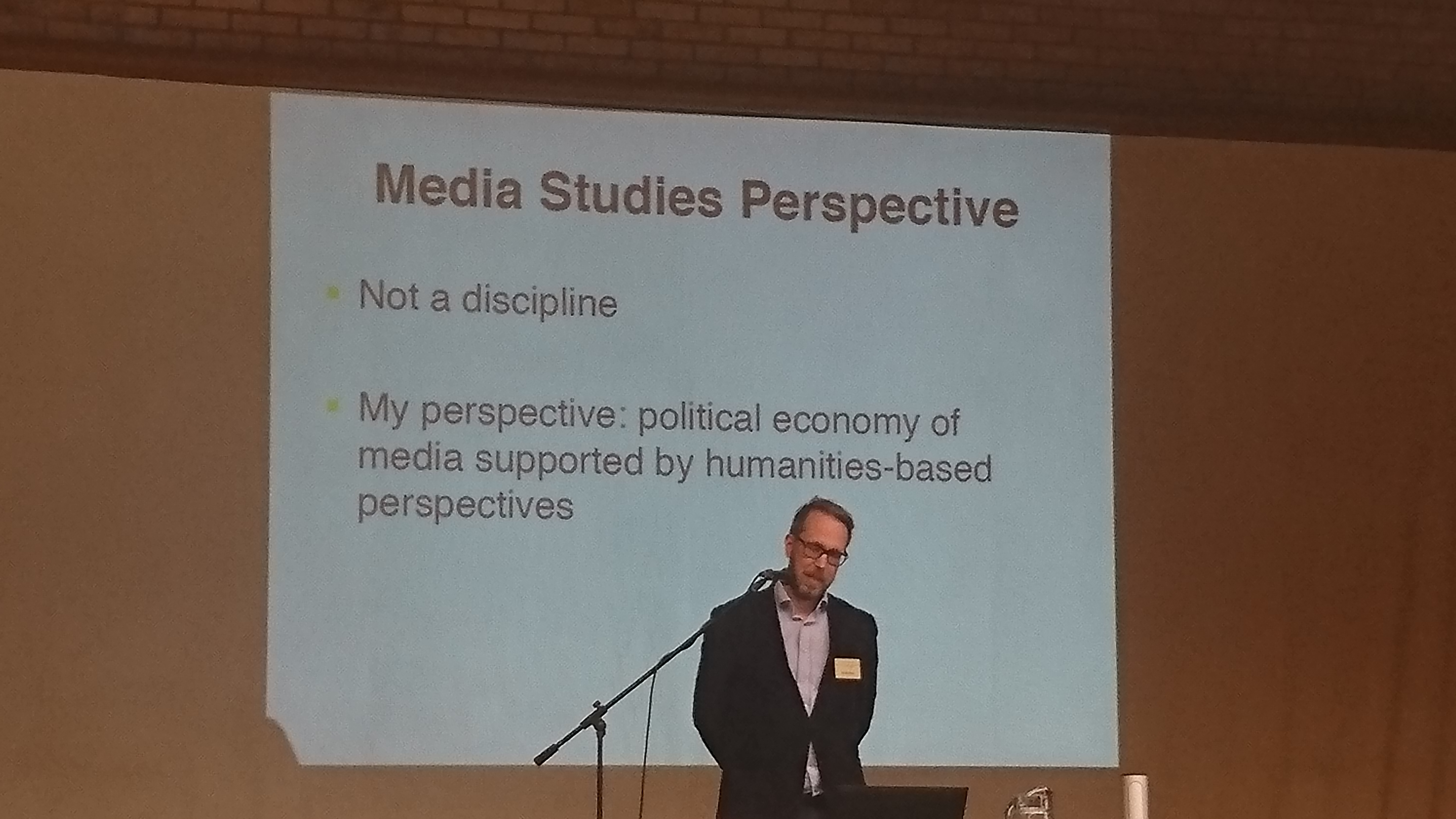 Estonian media expert and semiotician Indrek Ibrus on the stage of Estonian Philosophy's 13th Annual Conference, May 11, 2017.